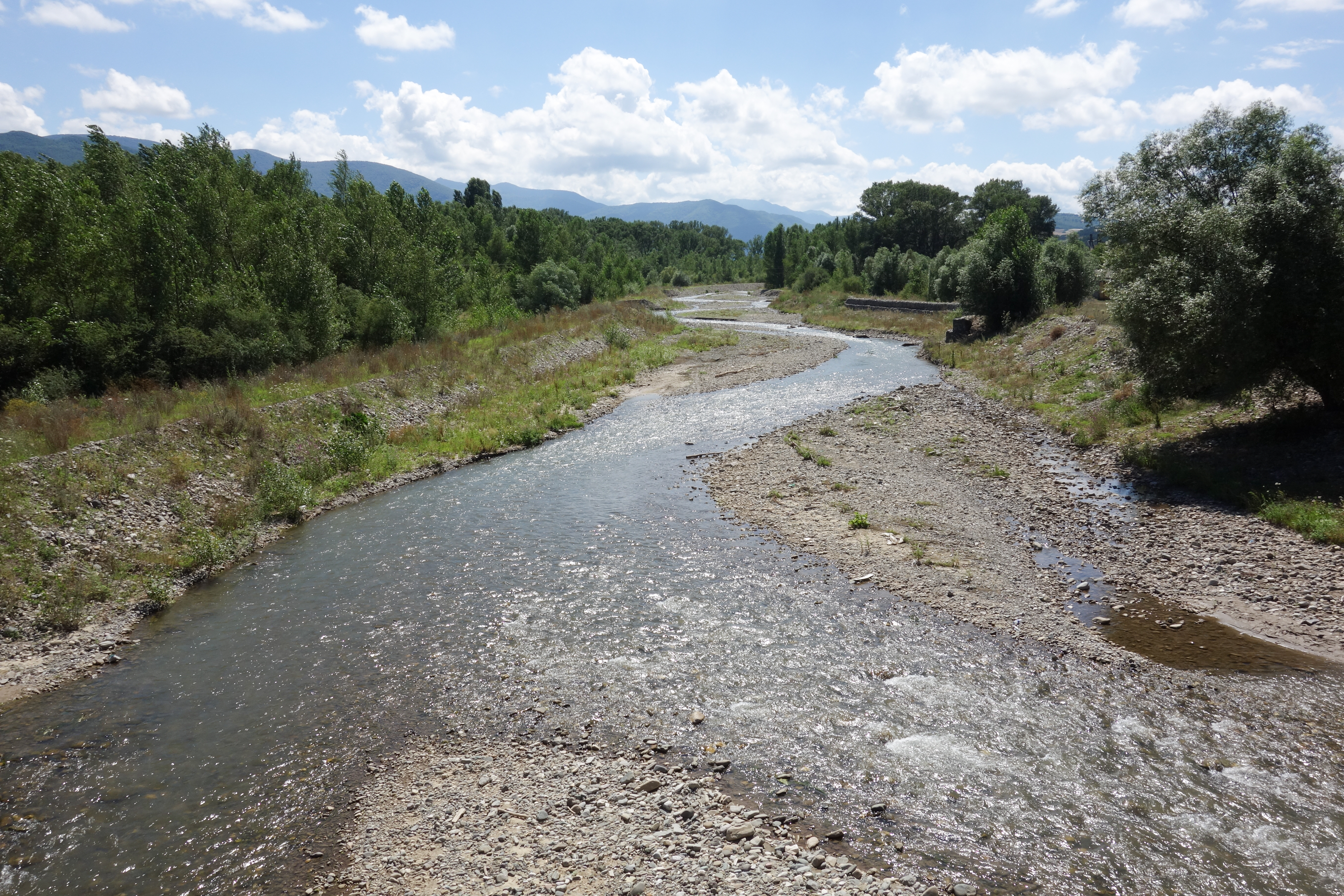 Dzama River near Kareli, Shida Kartli, Georgia